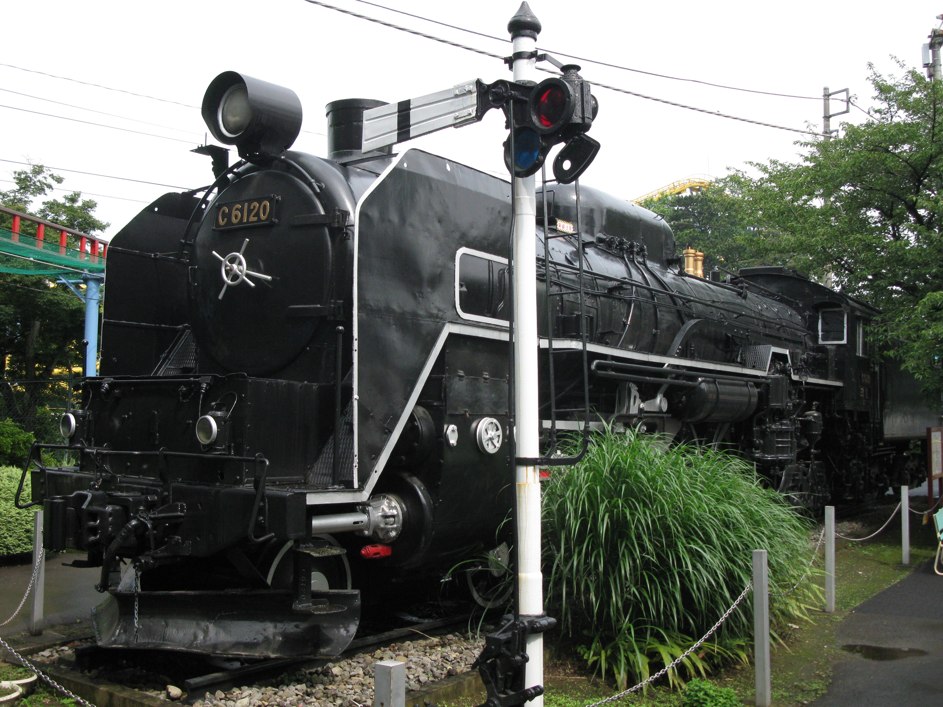 JNR C61 steam locomotives no.20